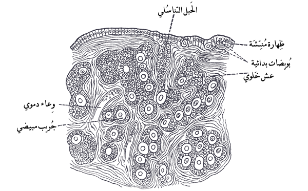 Section of the ovary of a newly born child. (Waldeyer.)